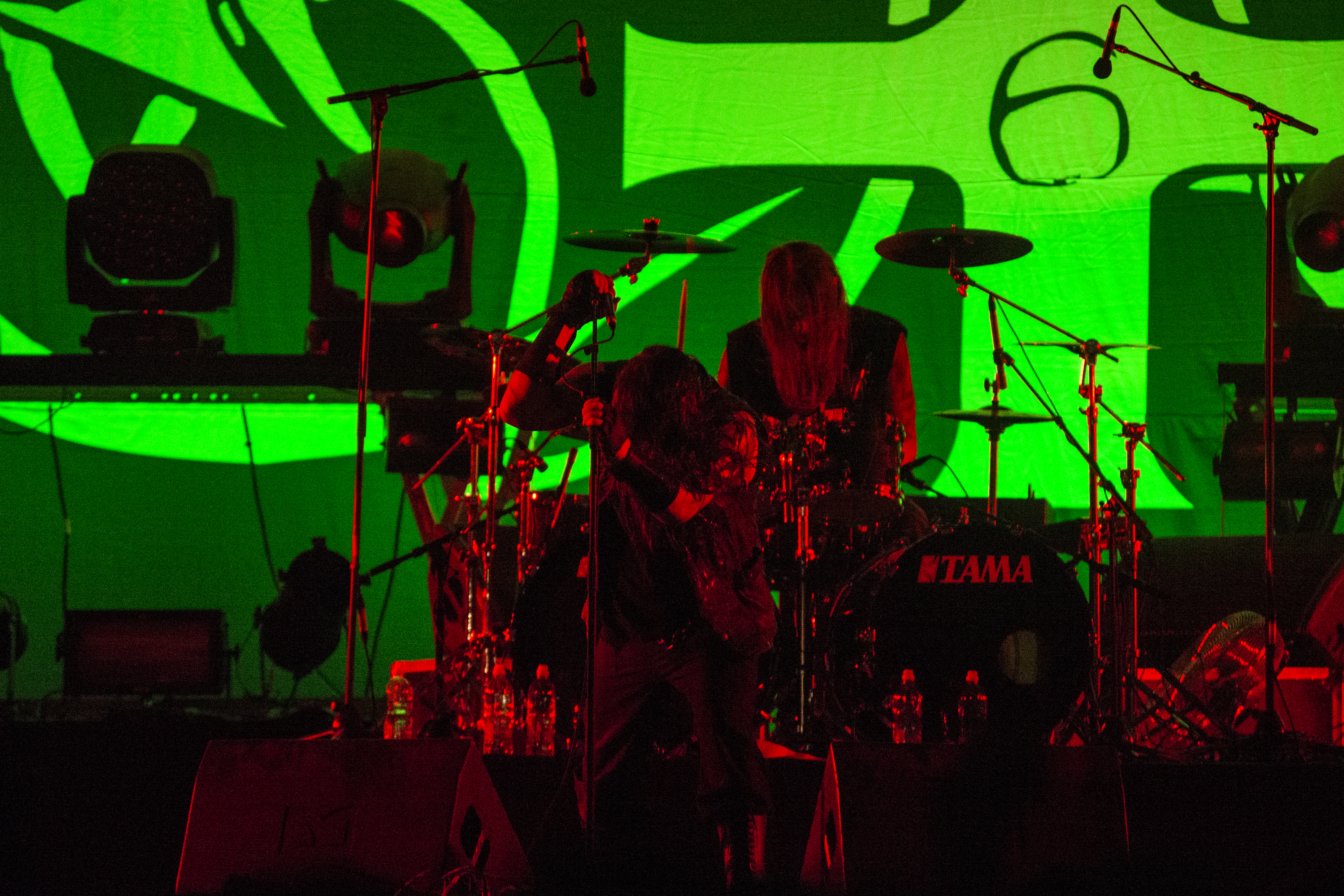 Swedish band Marduk at 2017 Hellfest, France.